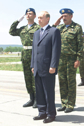 PRISTINA, KOSOVO. President Putin being welcomed at the airport.